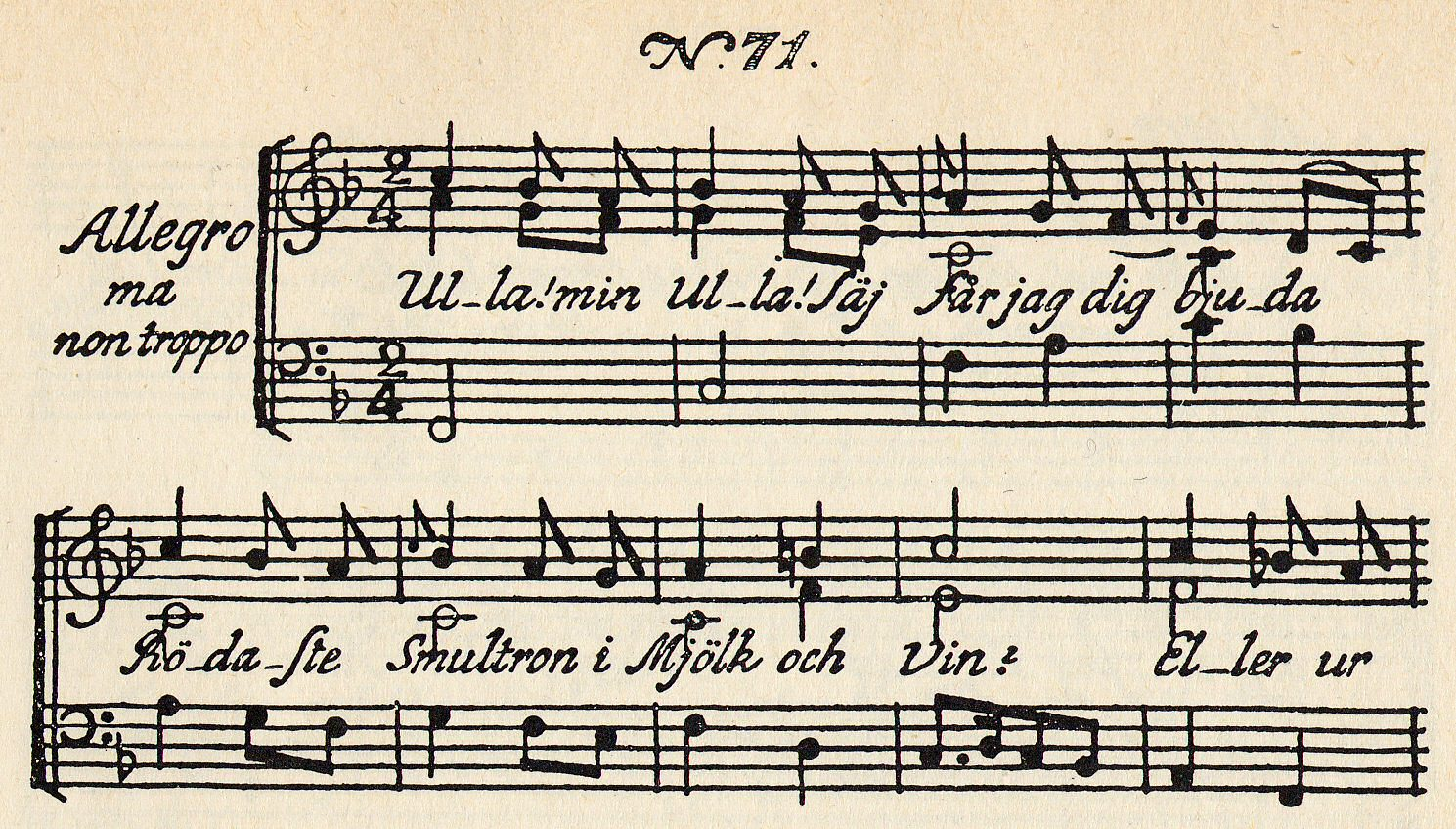 First two lines of Fredman's Epistle No:71, Ulla! min Ulla! Allegro ma non troppo. written by Carl Michael Bellman, 1790.